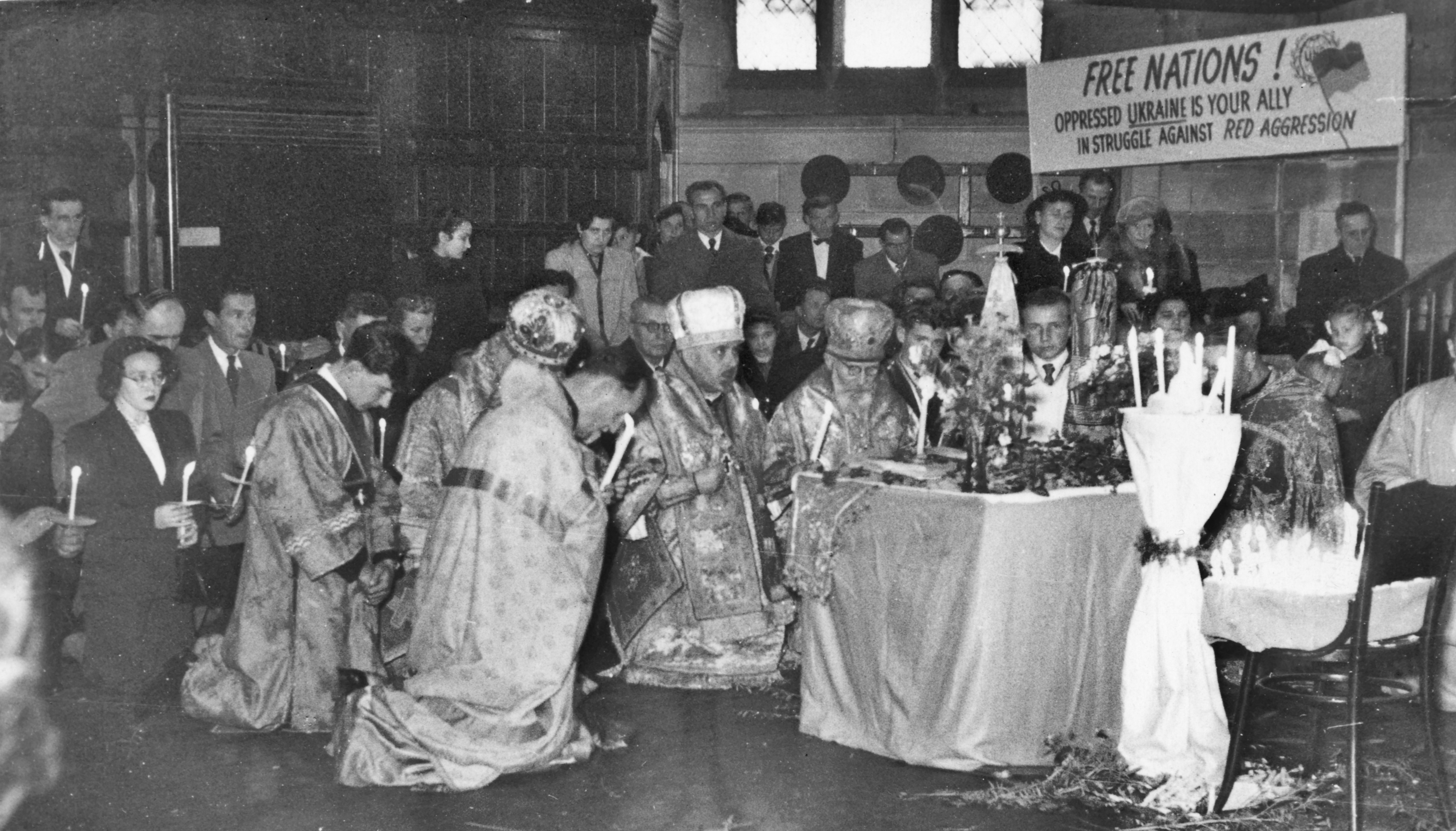 Memorial service by the Ukrainian Orthodox Church in Sydney, held at Chapter House, St Andrew's Cathedral (Anglican) to commemorate the millions of Ukrainian dead as a result of the Holodomor. Visible is father Ananiy Teodorowych, Bishop Ivan (Danyluk) and Archbishop Silvester. After the service, 3,000 Ukrainians marched from the church to the Domain in a demonstration against Communist oppression of their homeland.